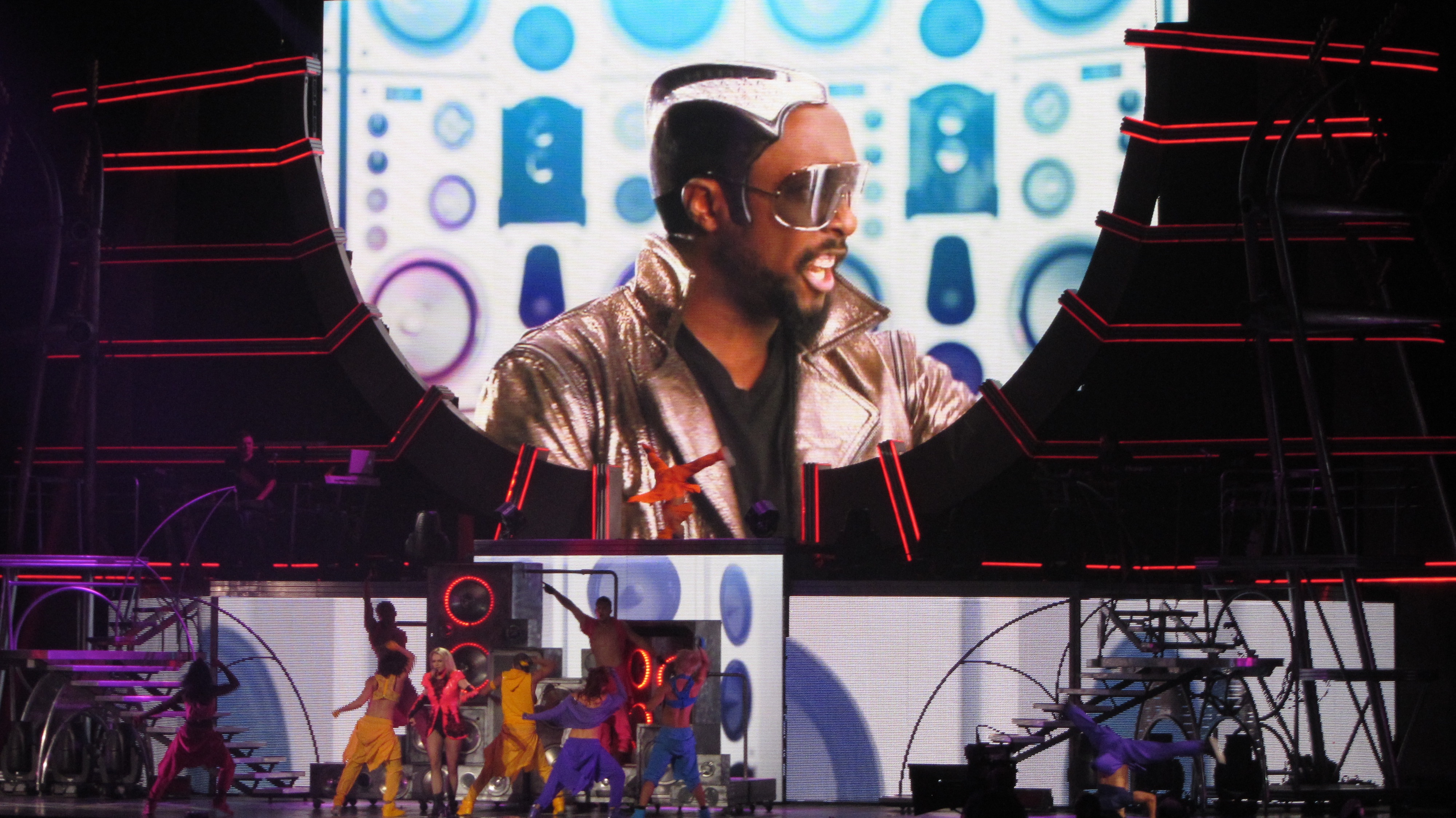 Britney Spears Femme Fatale Concert in Toronto